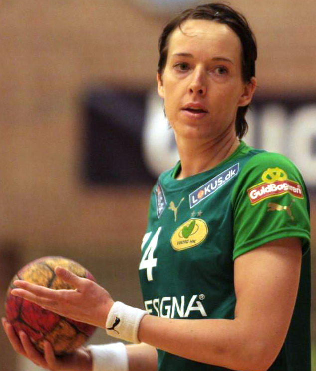 Kristine Lunde, Norwegian handball player, during a 2008/09 Danish Championship play off match between KIF Vejen and Viborg HK. The picture was taken on 25 April 2009.